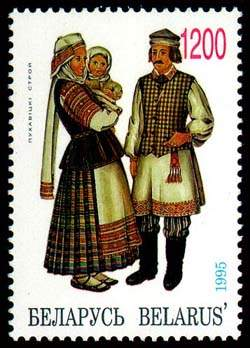 Pukhavichy Stroj stamp